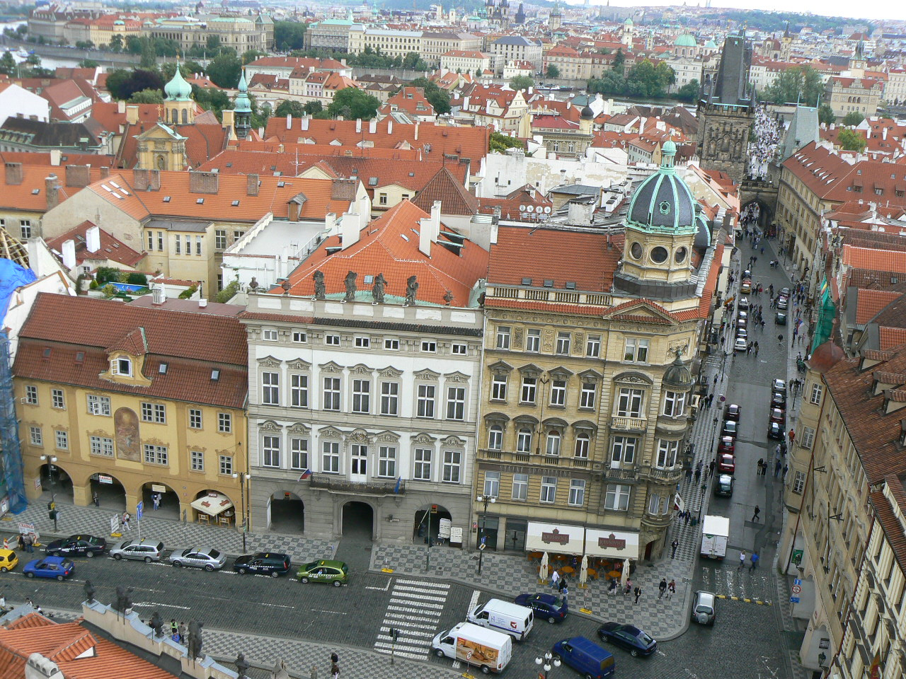 View of Lesser Town Square from the belfry of St. Nicholas Church